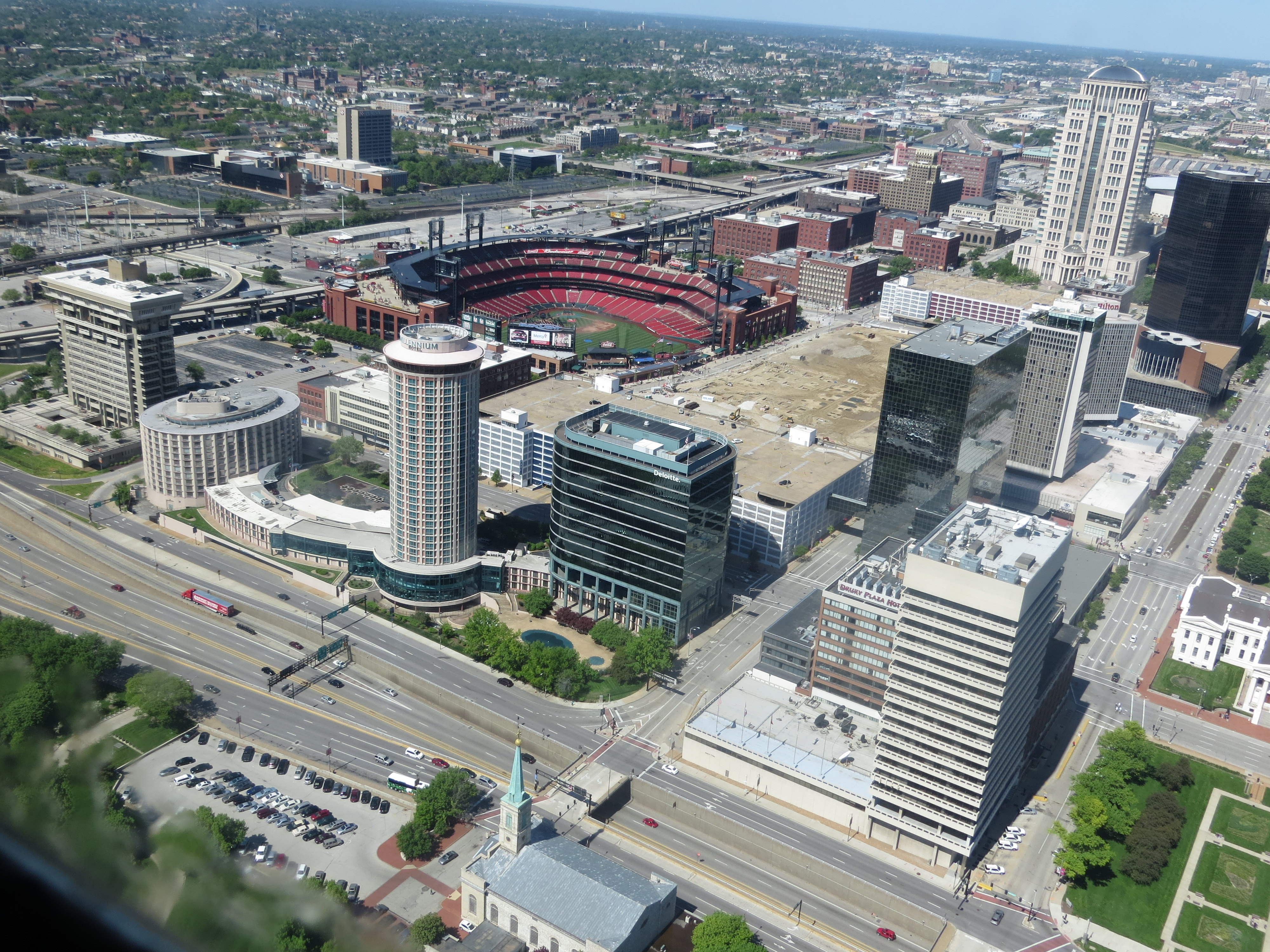 Busch Stadium as seen from the top of the Gateway Arch in St. Louis, Missouri.